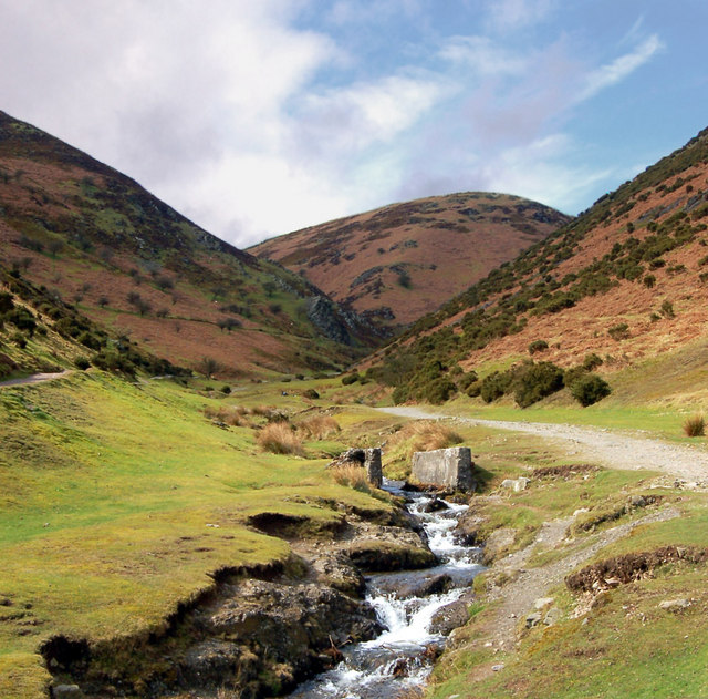 Carding Mill Valley footpaths Looking west towards the Long Mynd with footpaths either side of the stream.